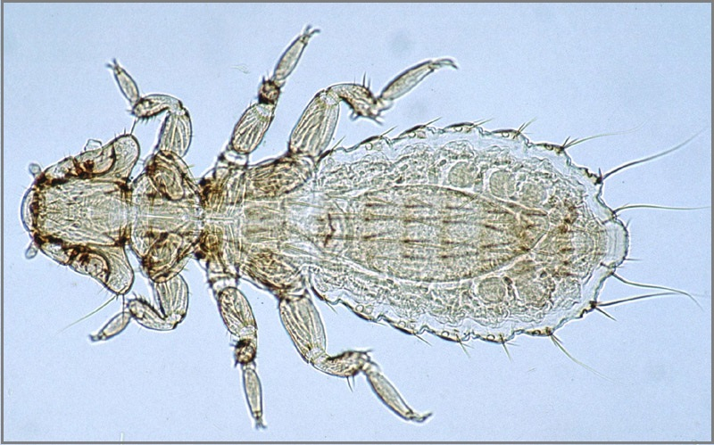 Photograph of a parasitic insect of domestic animals